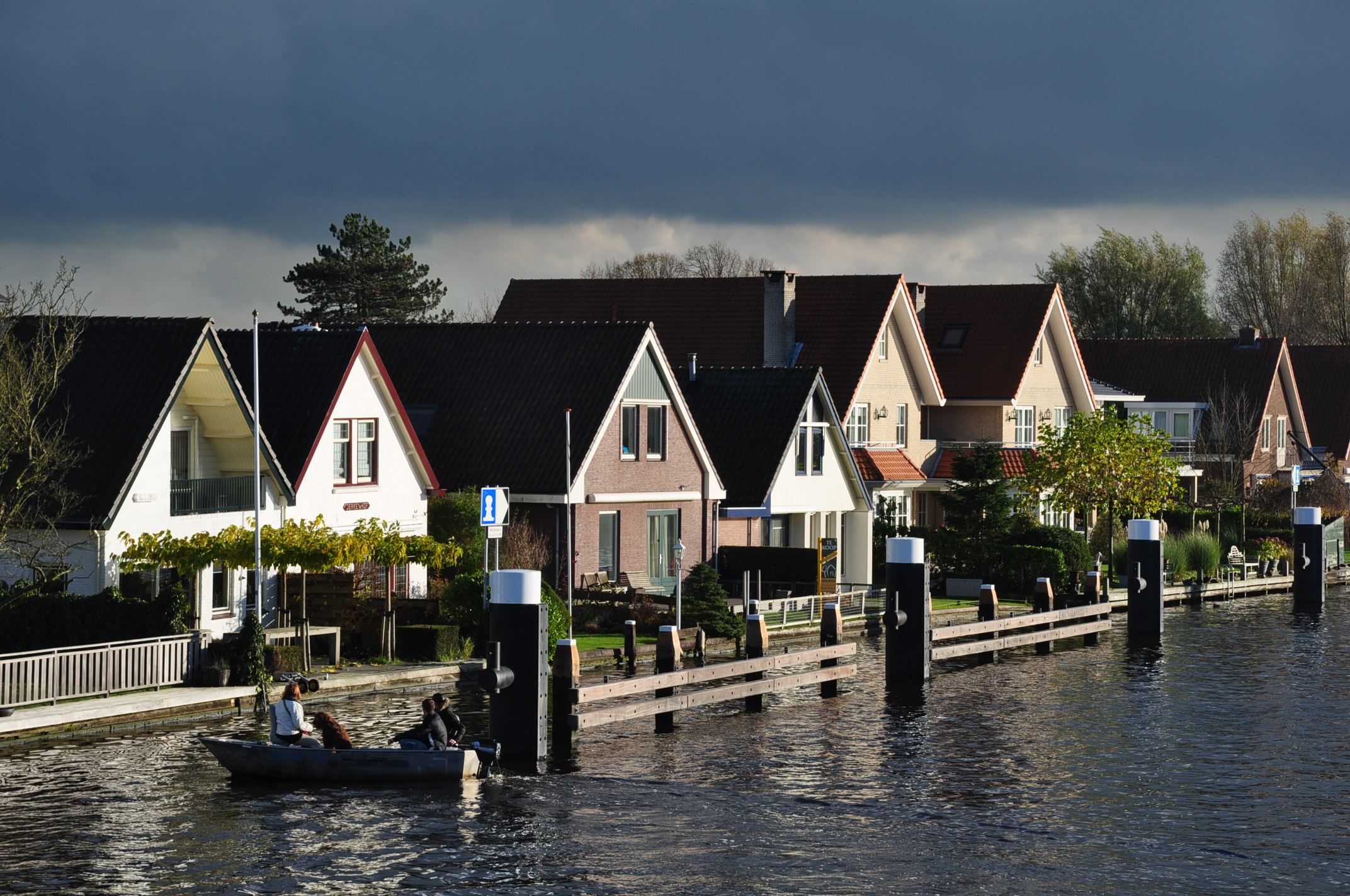 Houses on the Woudwetering canal in Woubrugge (municipality Kaag en Braassem, Province South Holland, Netherlands).